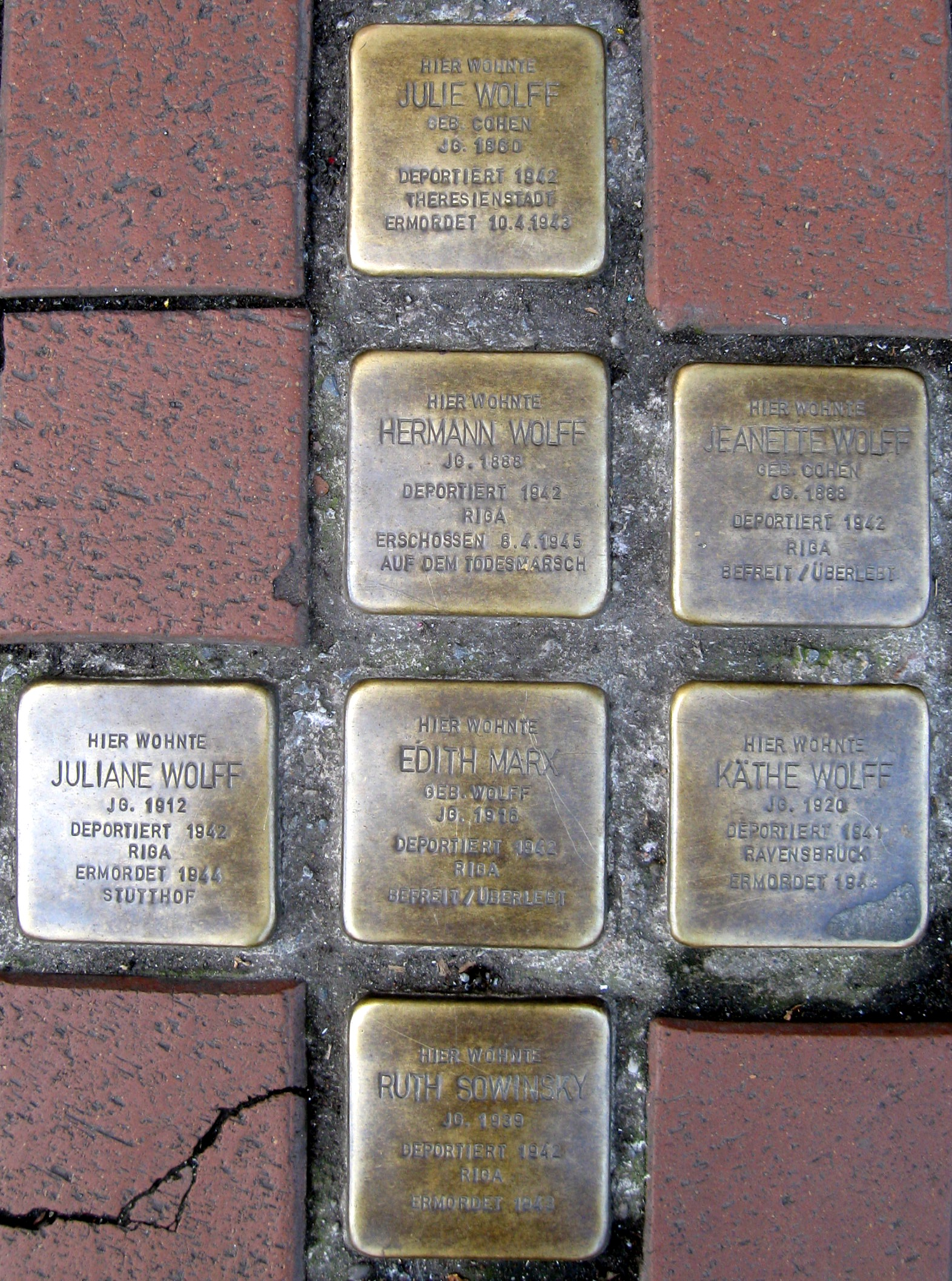 Stolpersteine at house Münsterstraße 42 in Dortmund, Germany